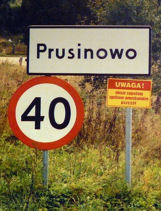 Prusinowo Poland. Histolysis infectiosa perniciosa larvae